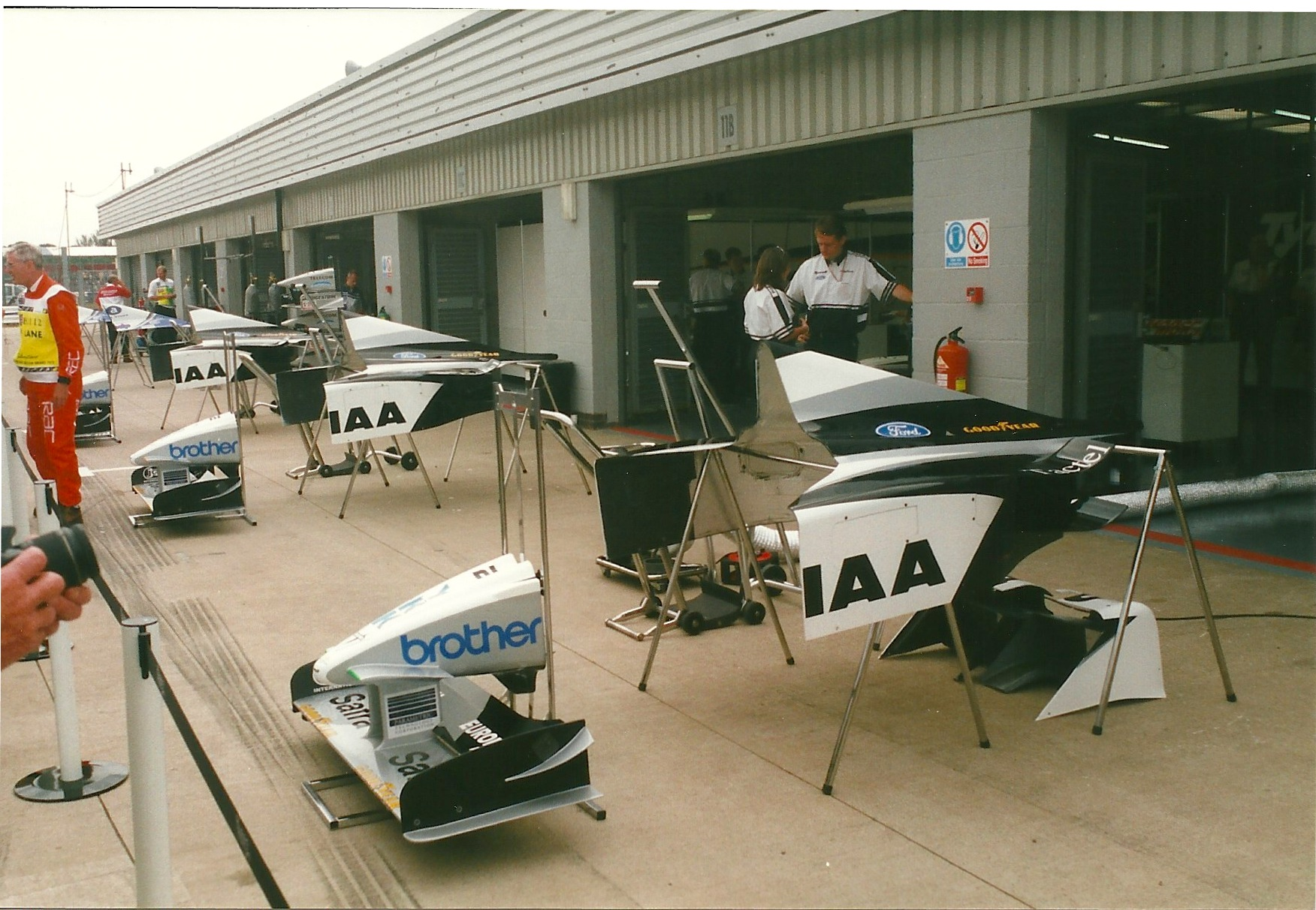 Explosed view of Tyrrell 026